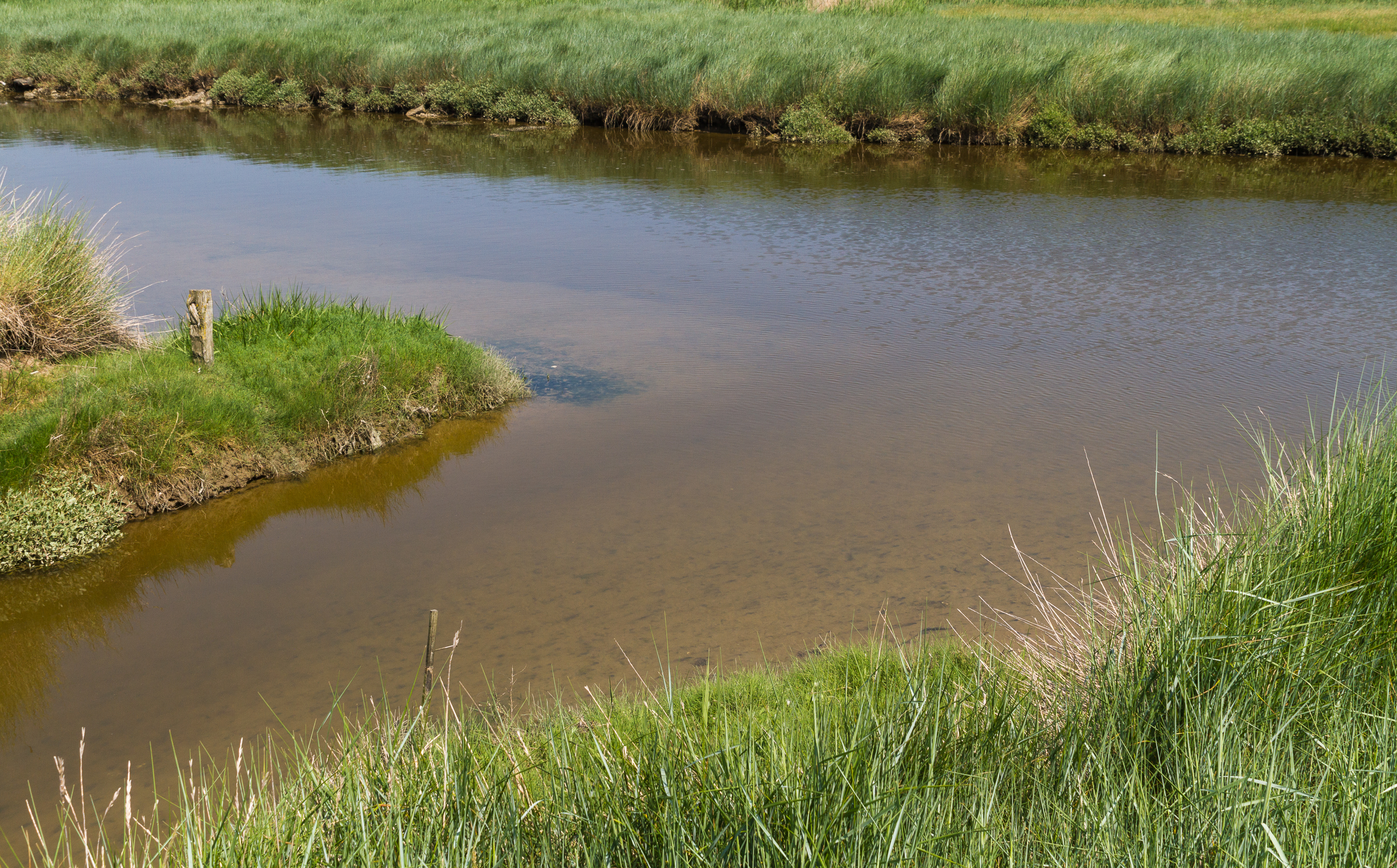 This is a picture of the protected area listed at WDPA under the ID 555537239 Designation: Godel lowland / Föhr Kind: Proposed Sites of Community Interest Nummer: DE-1316-301 Designation: Ramsar Convention Schleswig-Holstein Wadden Sea and adjacent coastal areas Kind: Bird reserve Nummer: DE-0916-491 Description: On the south coast of the island of Föhr, the creeks Godel, Wiel and Luer brings salt water in the lowland unprotected by levee below the edge of the geest. It is a extended salt marsh landscape in lagoon location which is crossed by the stream Godel. The lowland area is an important bird breeding and resting area. Place: Municipality Witsum, Collective municipality Föhr-Amrum, District Nordfriesland, Schleswig-Holstein, Germany Location: Klavertsweg